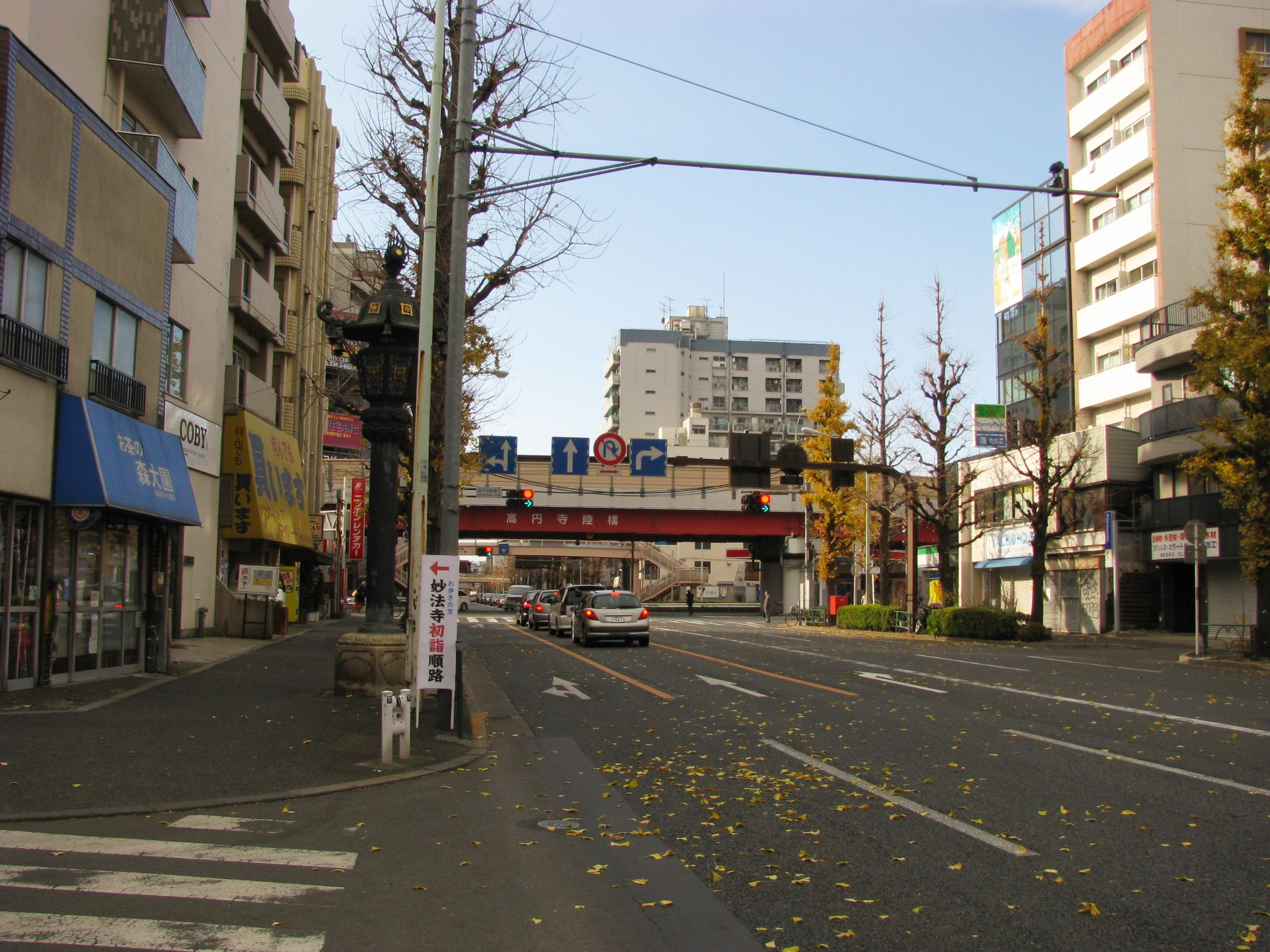 The Tokyo Prefectural Route 4. This location is Wada in Suginami, Tokyo, Japan.